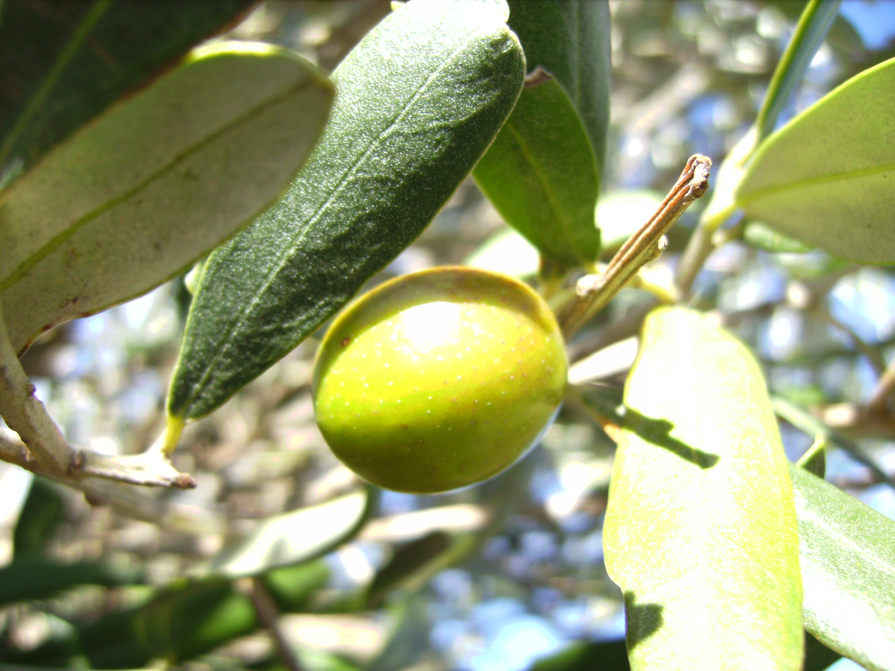 one olive fruit cultivar Hojiblanca, Castelltallat, Catalonia